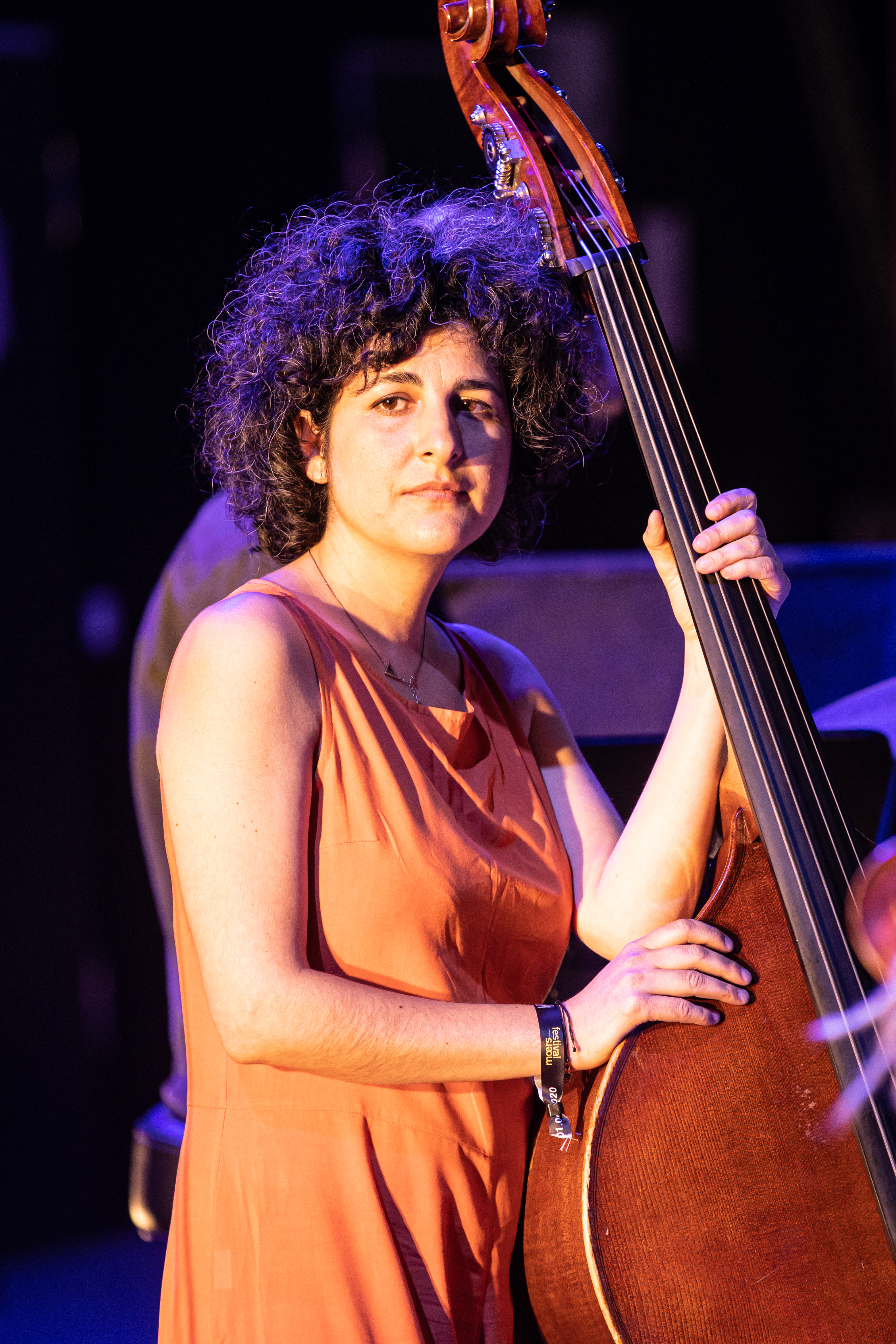 Jazz musician Athina Kontou at the Moers Festival 2020